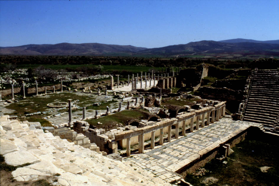 Aphrodisias, Theater Bath and Tetraston, behind theater